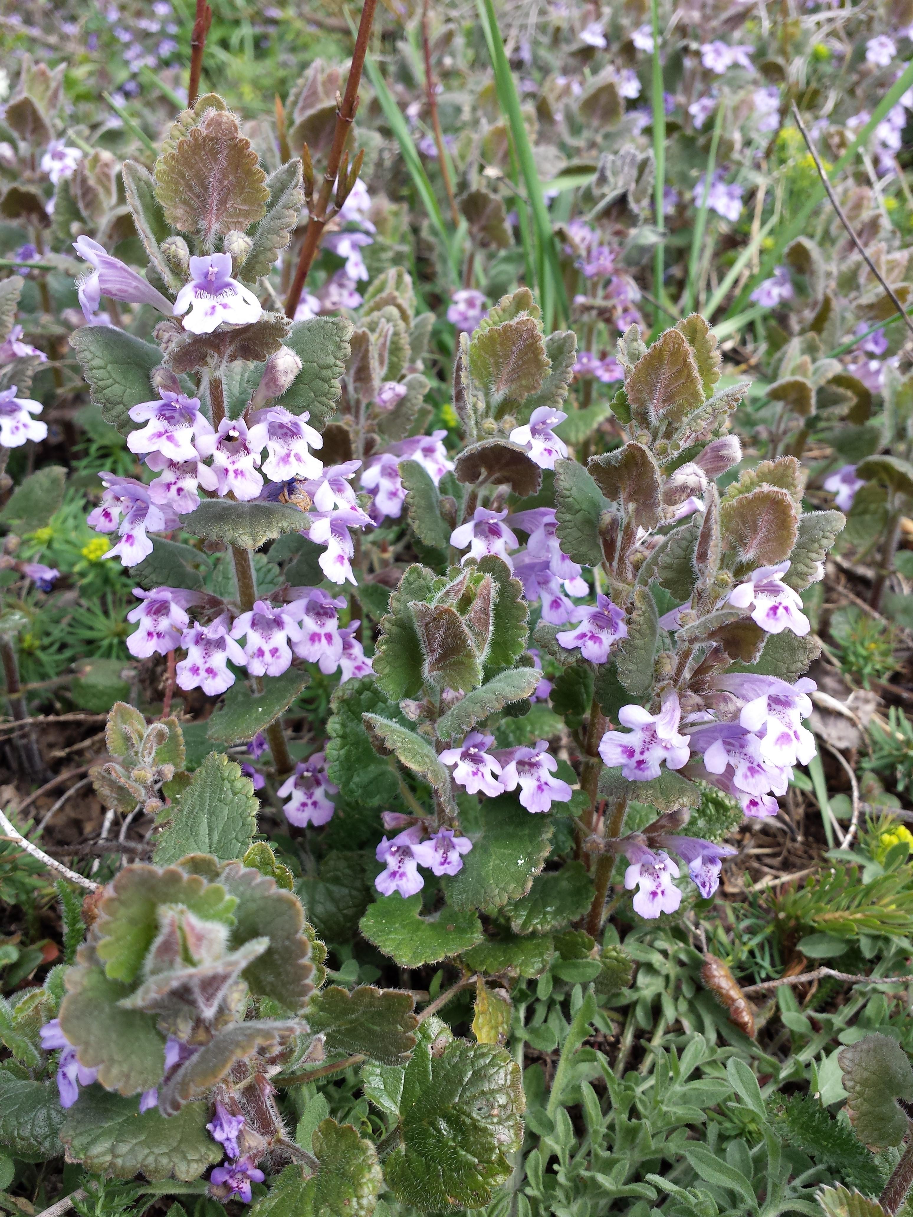 Habitus Taxonym: Glechoma hirsuta ss Fischer et al. EfÖLS 2008 ISBN 978-3-85474-187-9 Location: Hundsheimer Berg, district Bruck an der Leitha, Lower Austria - ca. 450 m a.s.l. Habitat: edge of the woods